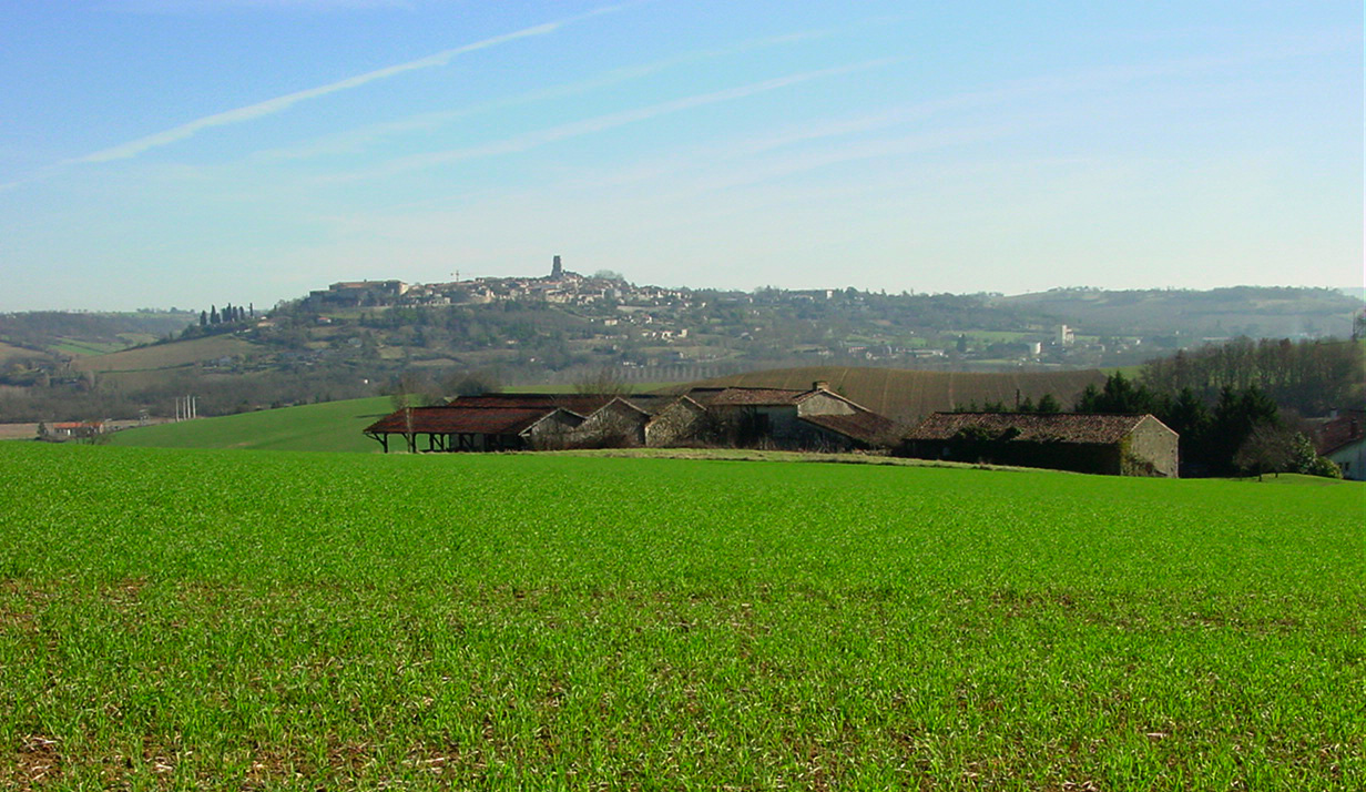 Lectoure from the west; taken from Maneau on road to Condom